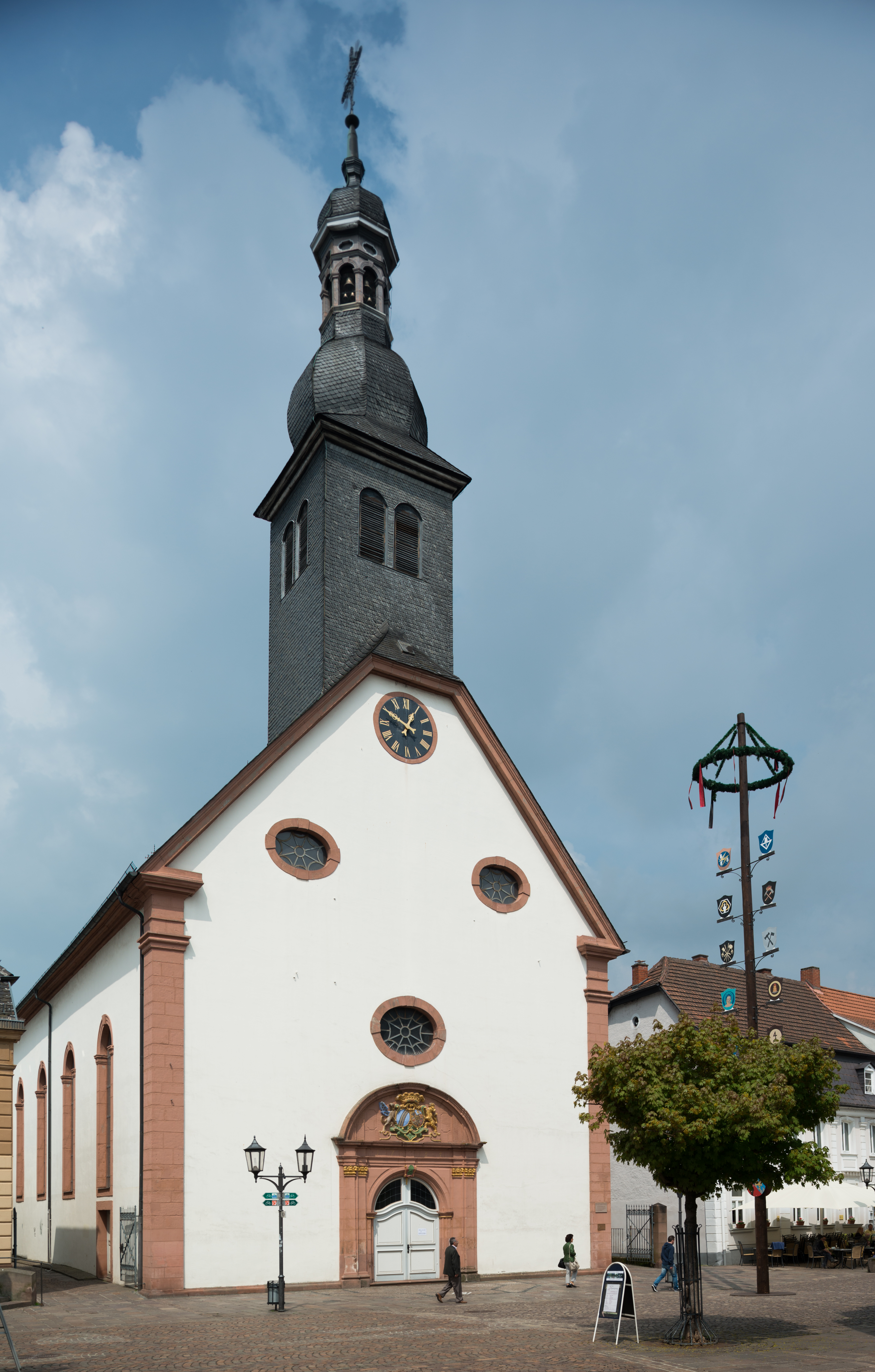 Church of St. Engelbert, St. Ingbert, Saarland